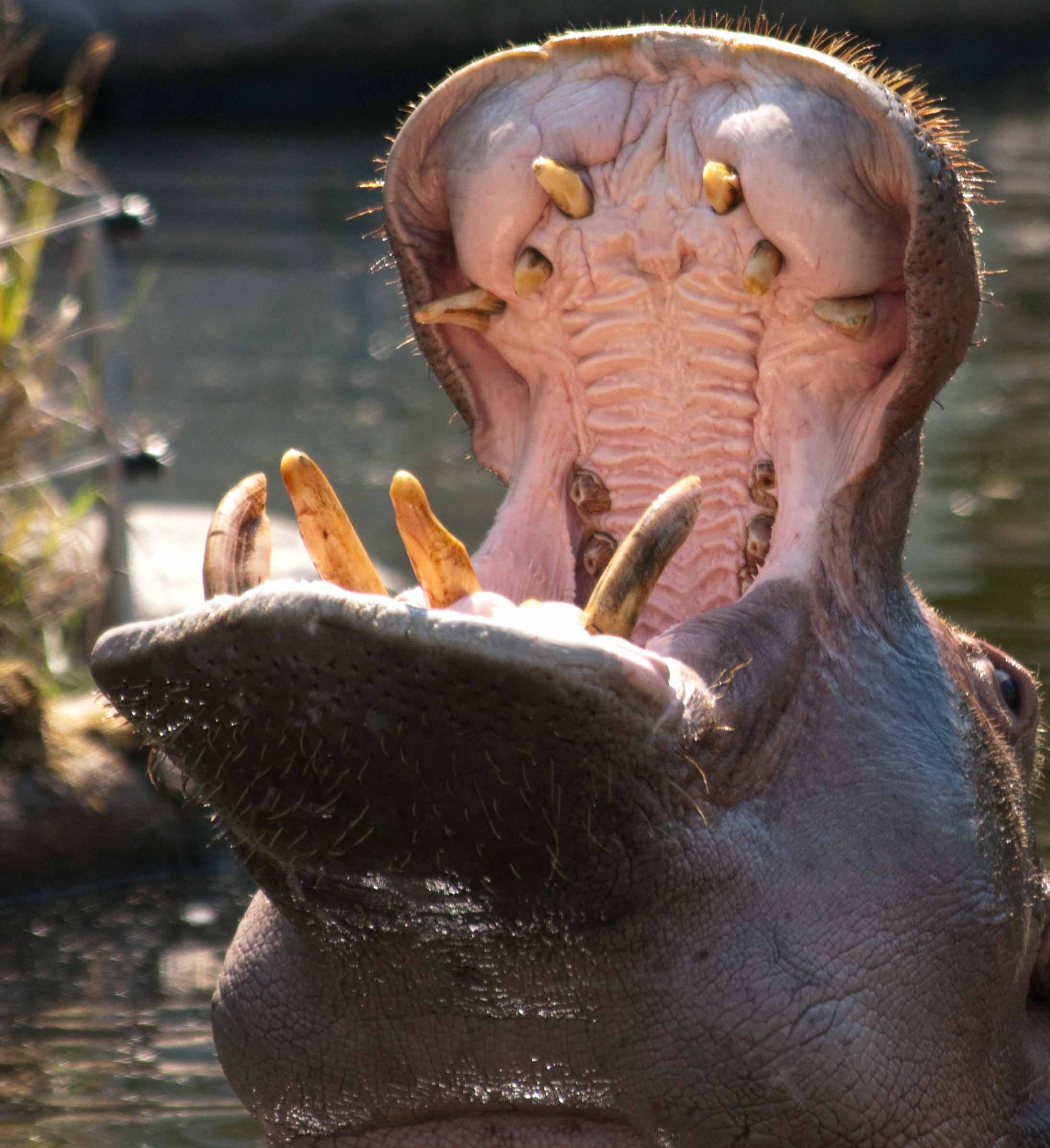 Hhippopotamus with open mouth.